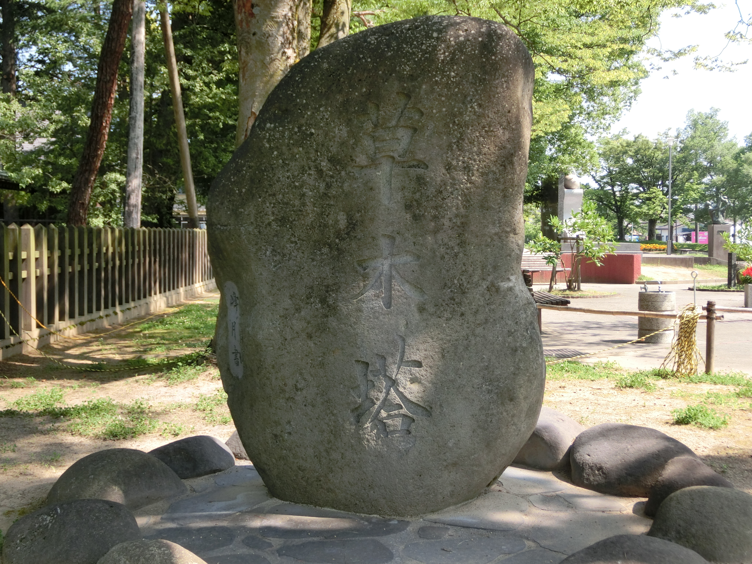 Somoku-to (Marunouchi, Yonezawa)